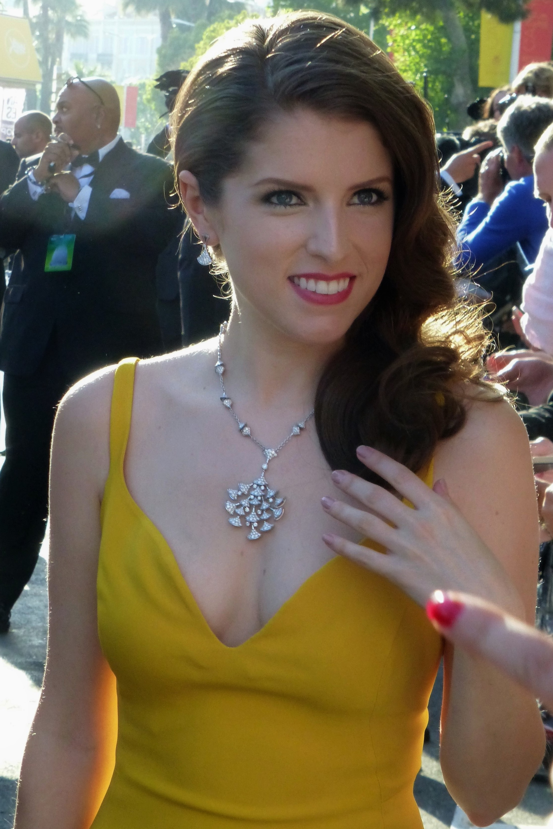 Anna Kendrick at the world premiere of Cafe Society, 2016 Cannes Film Festival